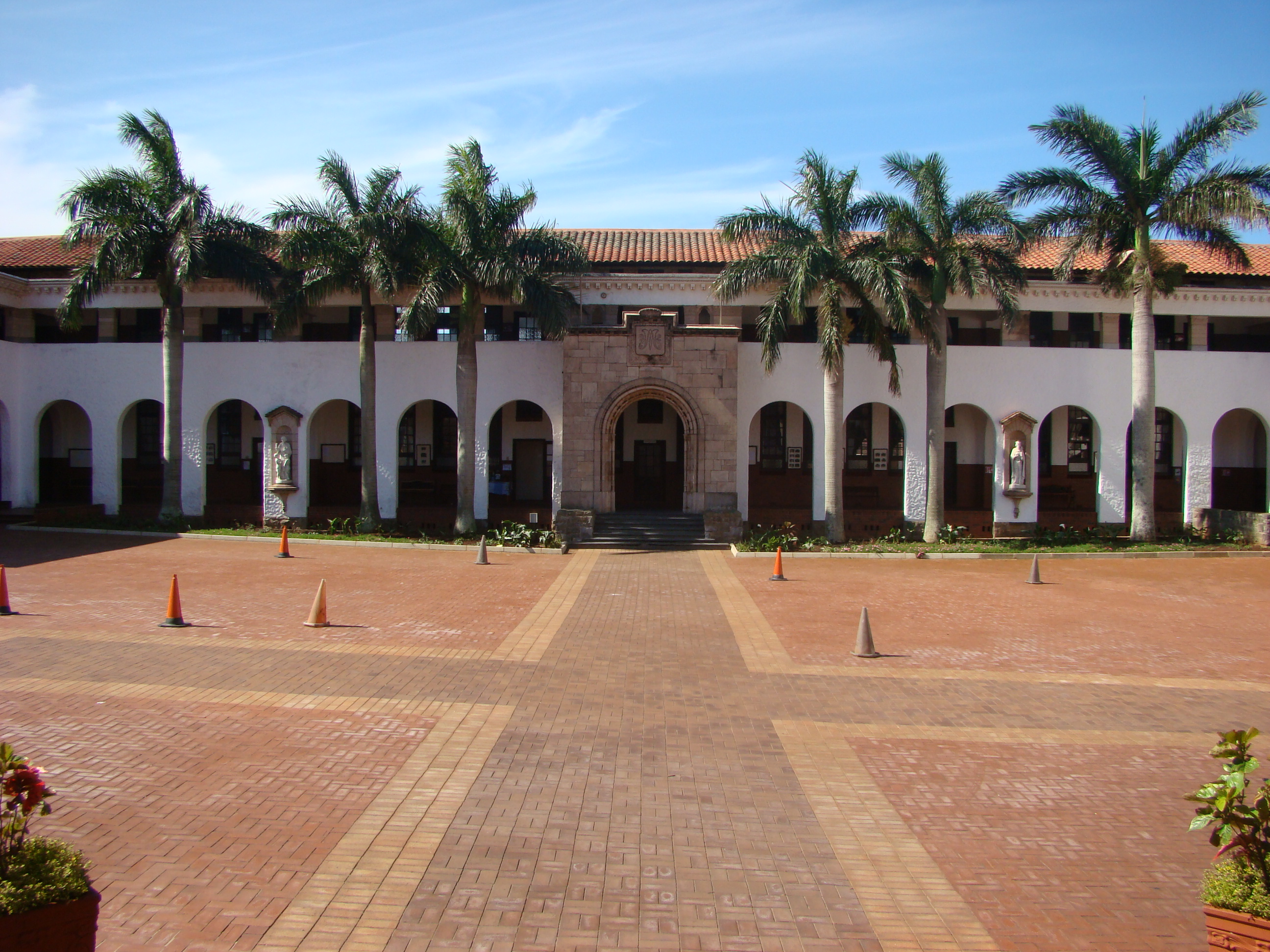 Photo of the main school building at St. Henry's Marist Brothers' College, Durban.